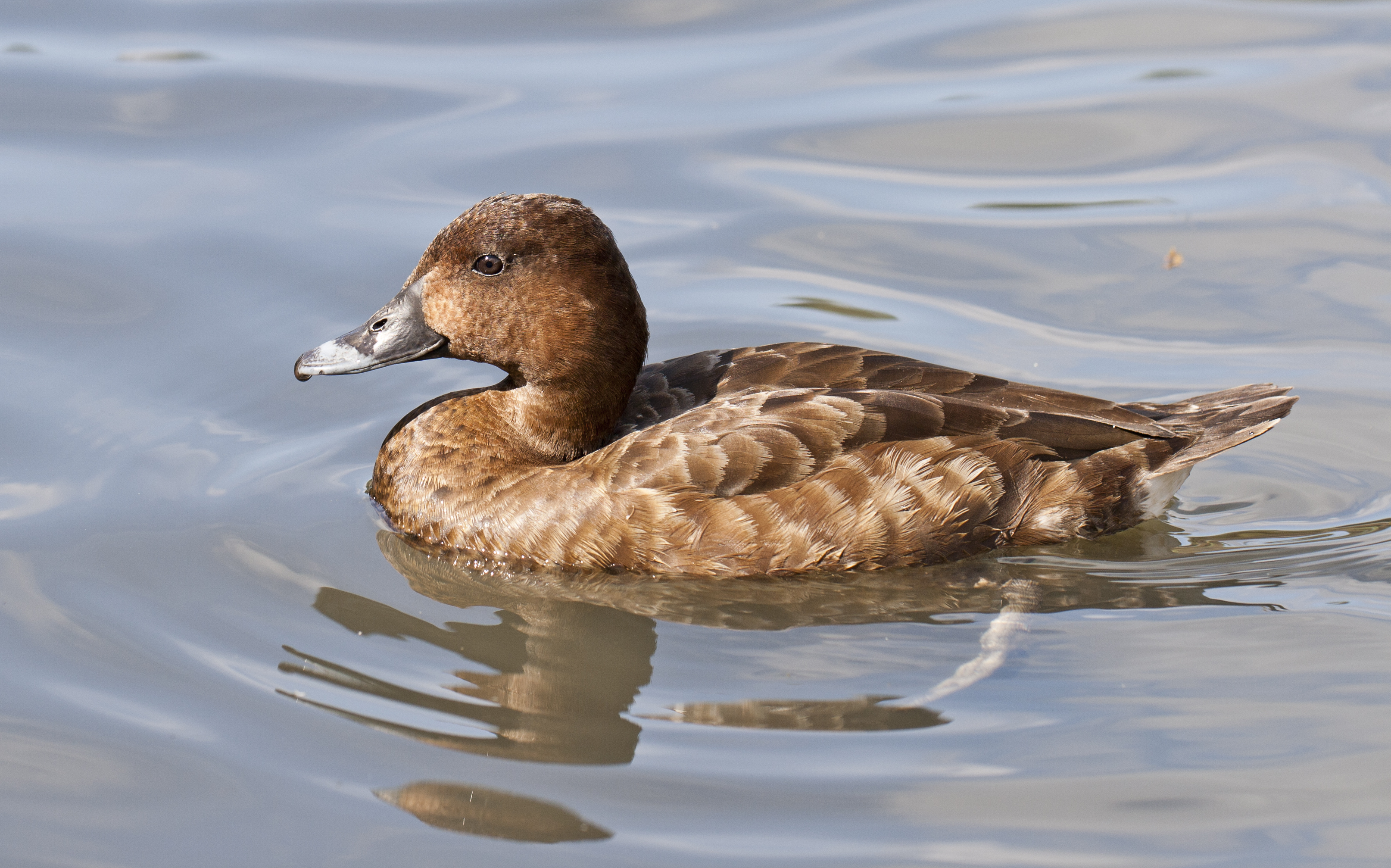 Hardhead female in Victoria Park, Sydney, NSW, Australia